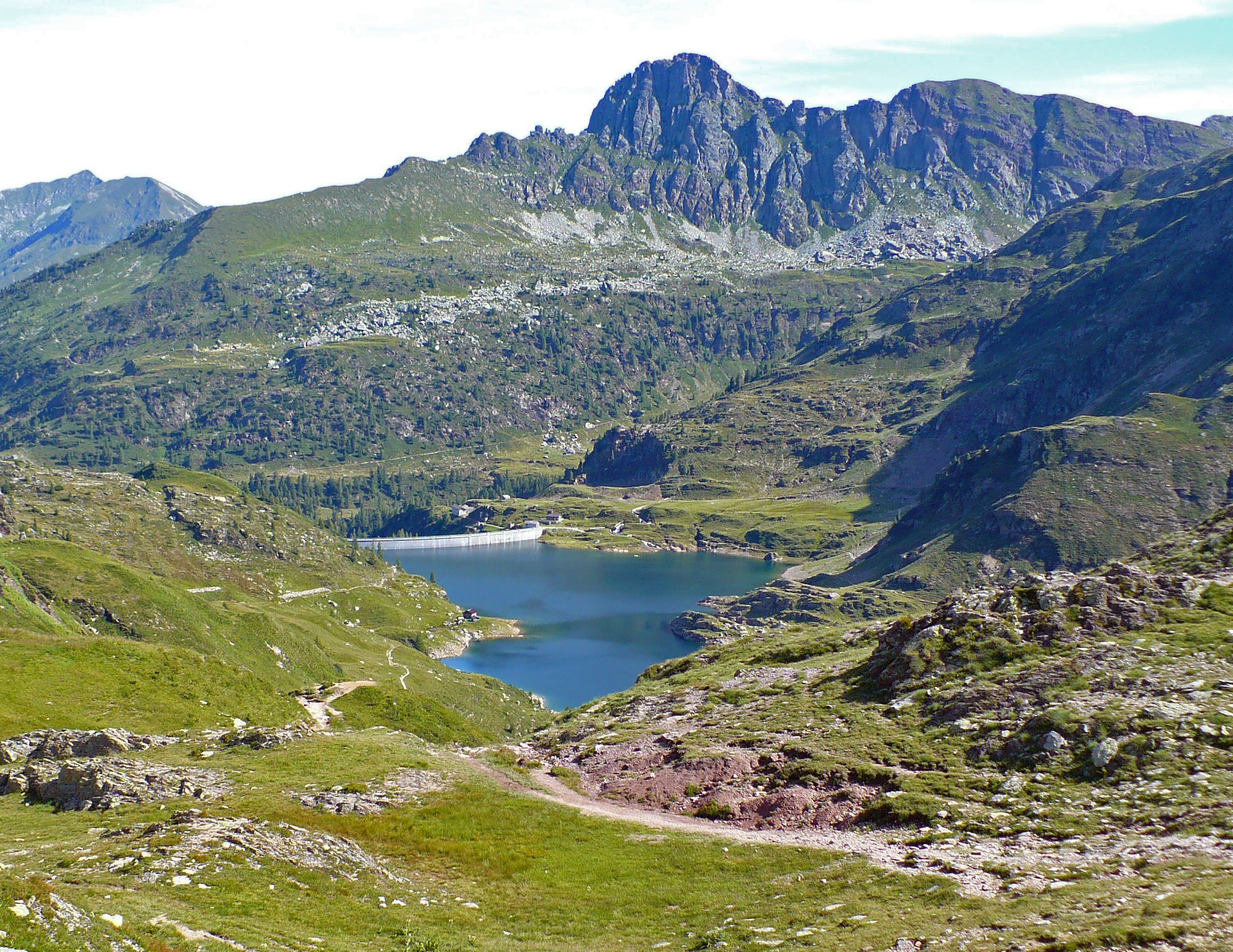 View of Laghi Gemelli and Pizzo del Becco from Mezzeno Pass